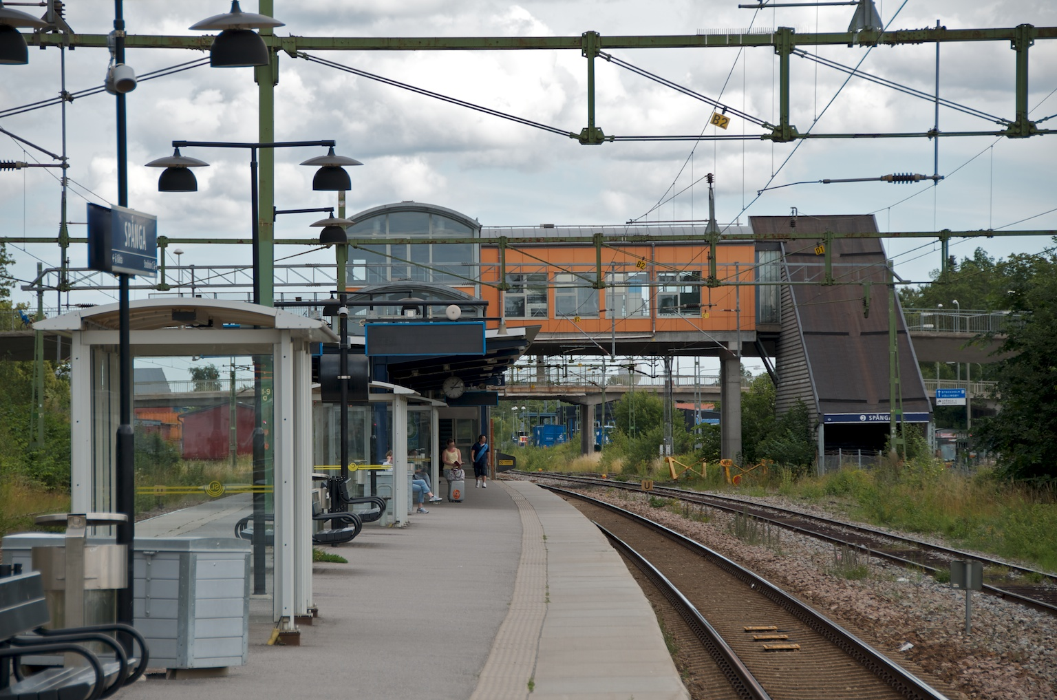 Spånga station from the platform